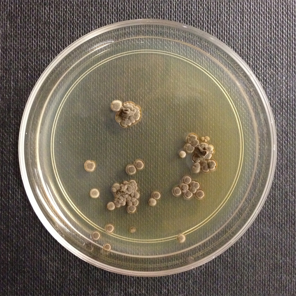 A culture of Wallemia sebi on a Petri dish